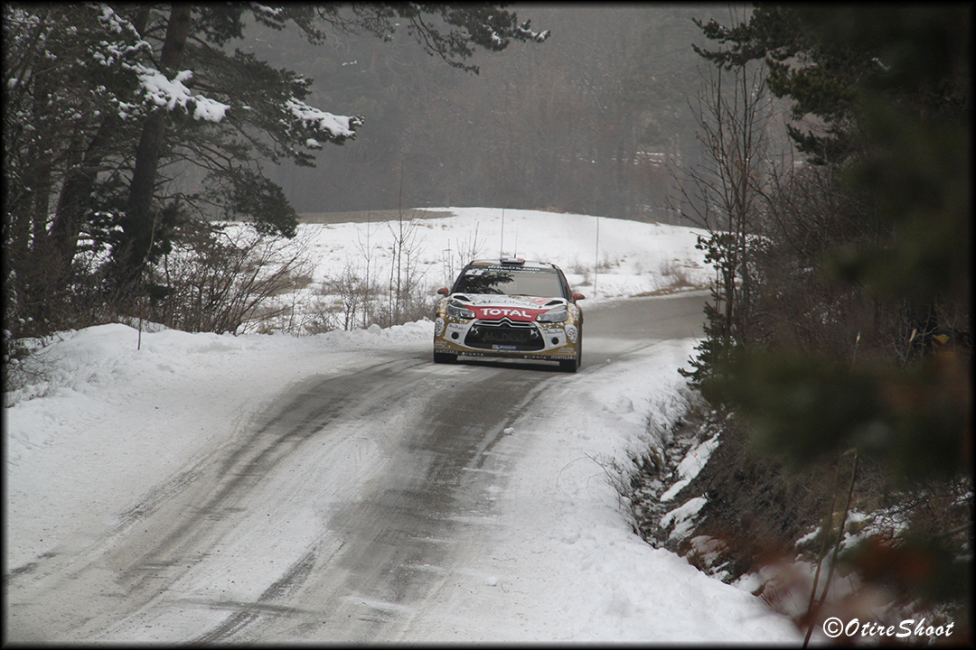 Sébastien Loeb at Monte-Carlo rally 2015 - SS5